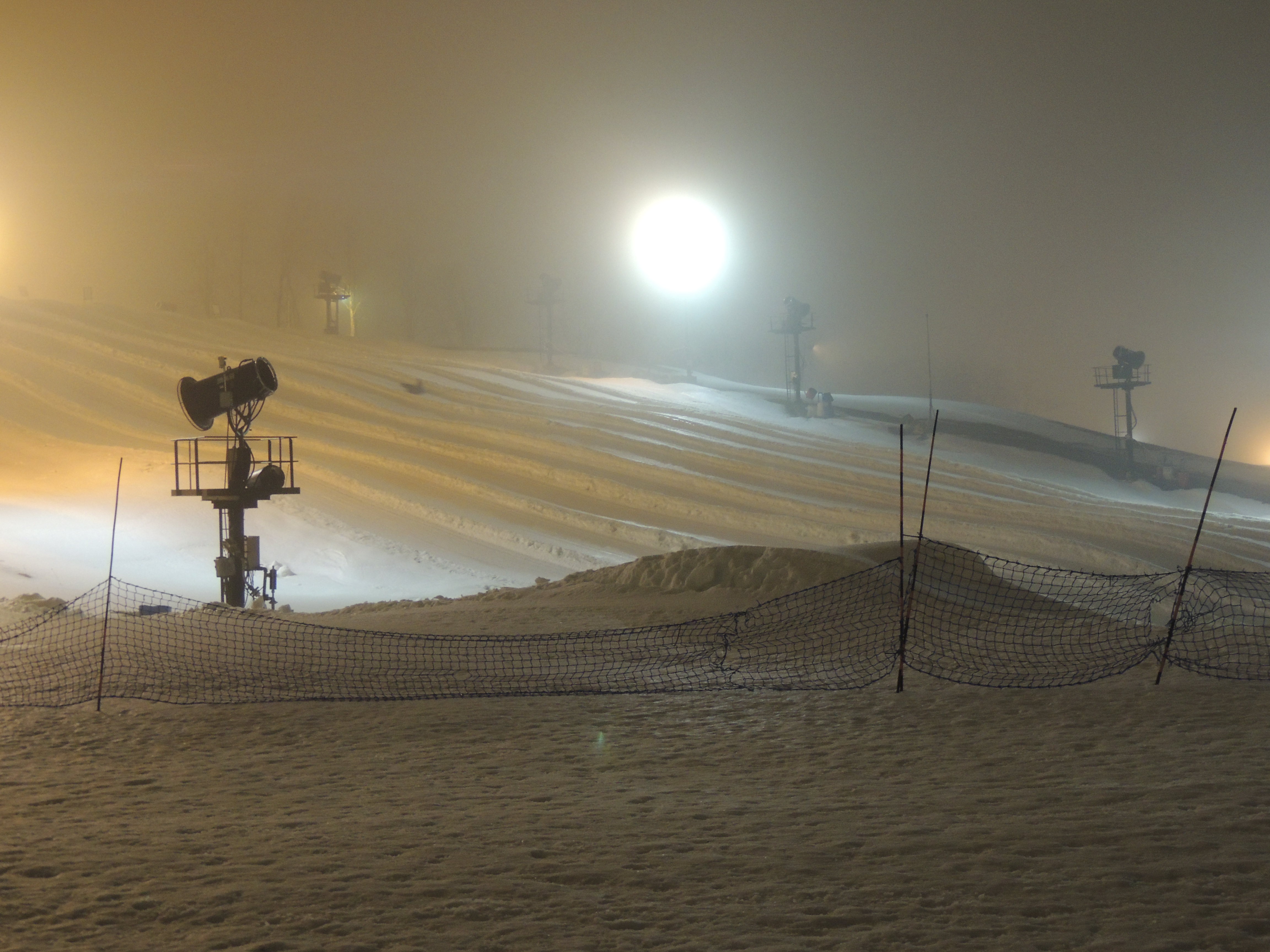 Snow making machine and snow tubing runs at Winterplace Ski Resort, West Virginia